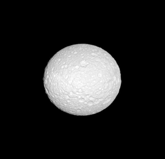 The Cassini spacecraft reveals the cratered surface of Mimas, a moon whose shape is flattened at the poles. See PIA07534 to learn more about why the moon has this oblate shape. This view looks toward the trailing hemisphere of Mimas (396 kilometers, or 246 miles across). North on Mimas is up and rotated 1 degree to the left. The image was taken in visible green light with the Cassini spacecraft narrow-angle camera on Oct. 14, 2009. The view was acquired at a distance of approximately 273,000 kilometers (170,000 miles) from Mimas and at a Sun-Mimas-spacecraft, or phase, angle of 5 degrees. Image scale is 2 kilometers (about 1 mile) per pixel.